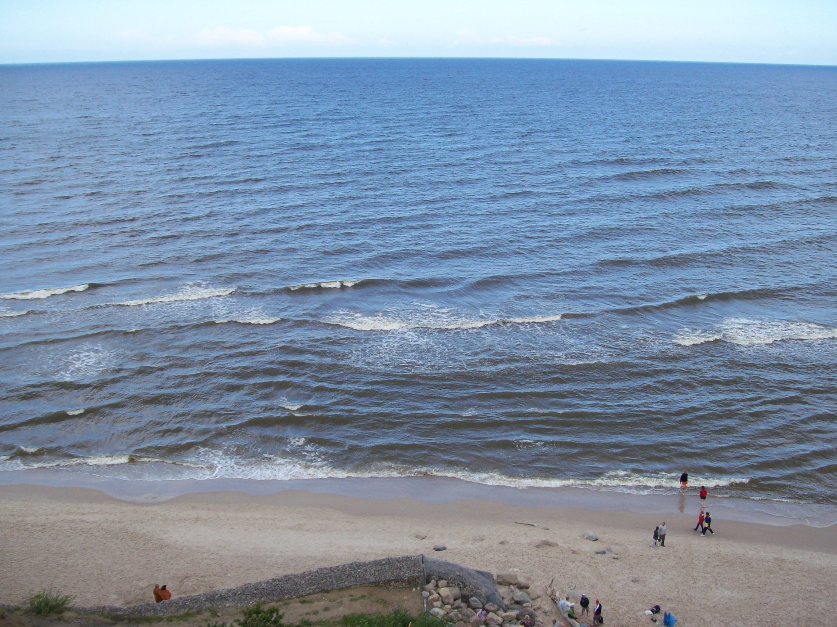 The northernmost point of Poland